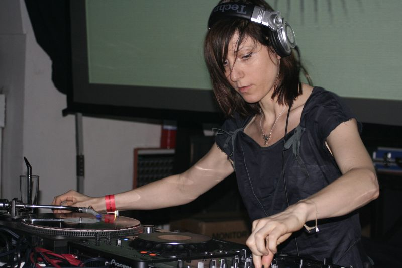 German electronic music artist Ellen Allien performing a DJ set at MAGMA 2006, TenerifeEllen Allien @ MAGMA 2006 - Tenerife